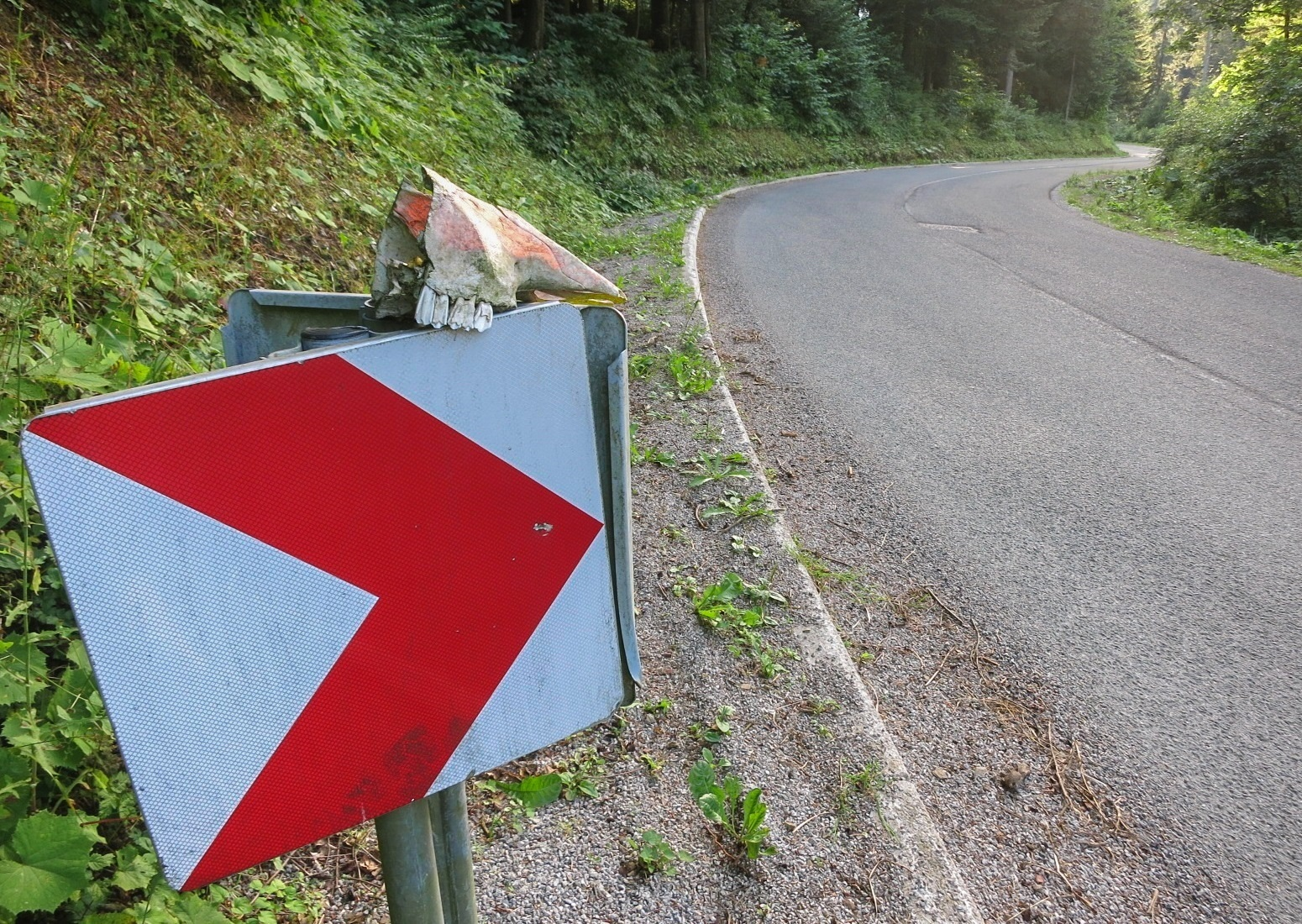 Forest road near Vela Voda, Croatia.